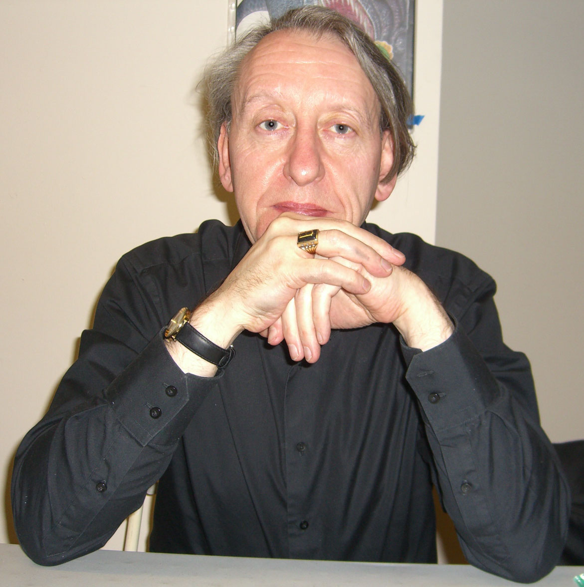 Comic book creator Bryan Talbot at the November 2008 Big Apple Convention in Manhattan.